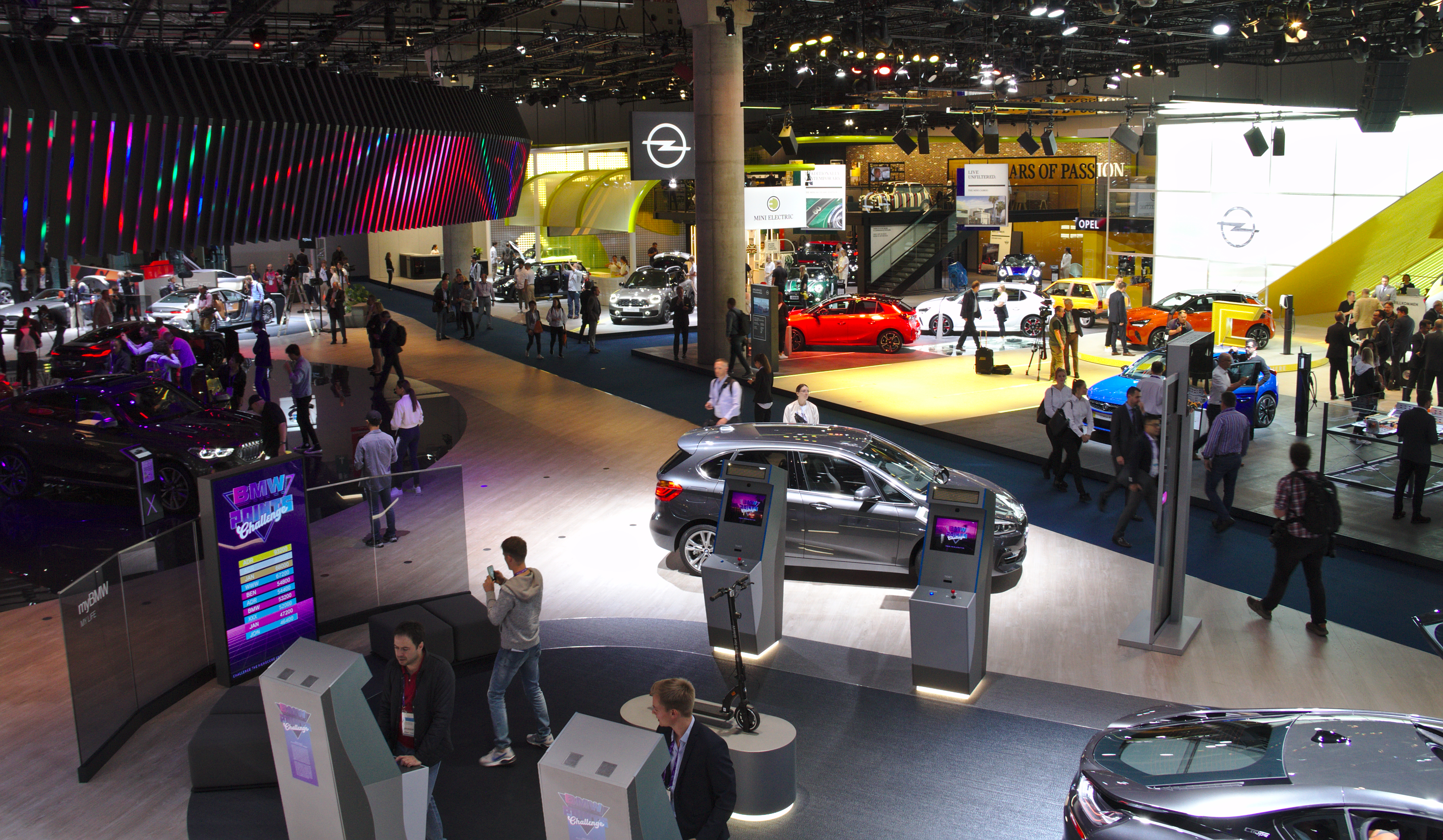 Hall 11 at IAA 2019